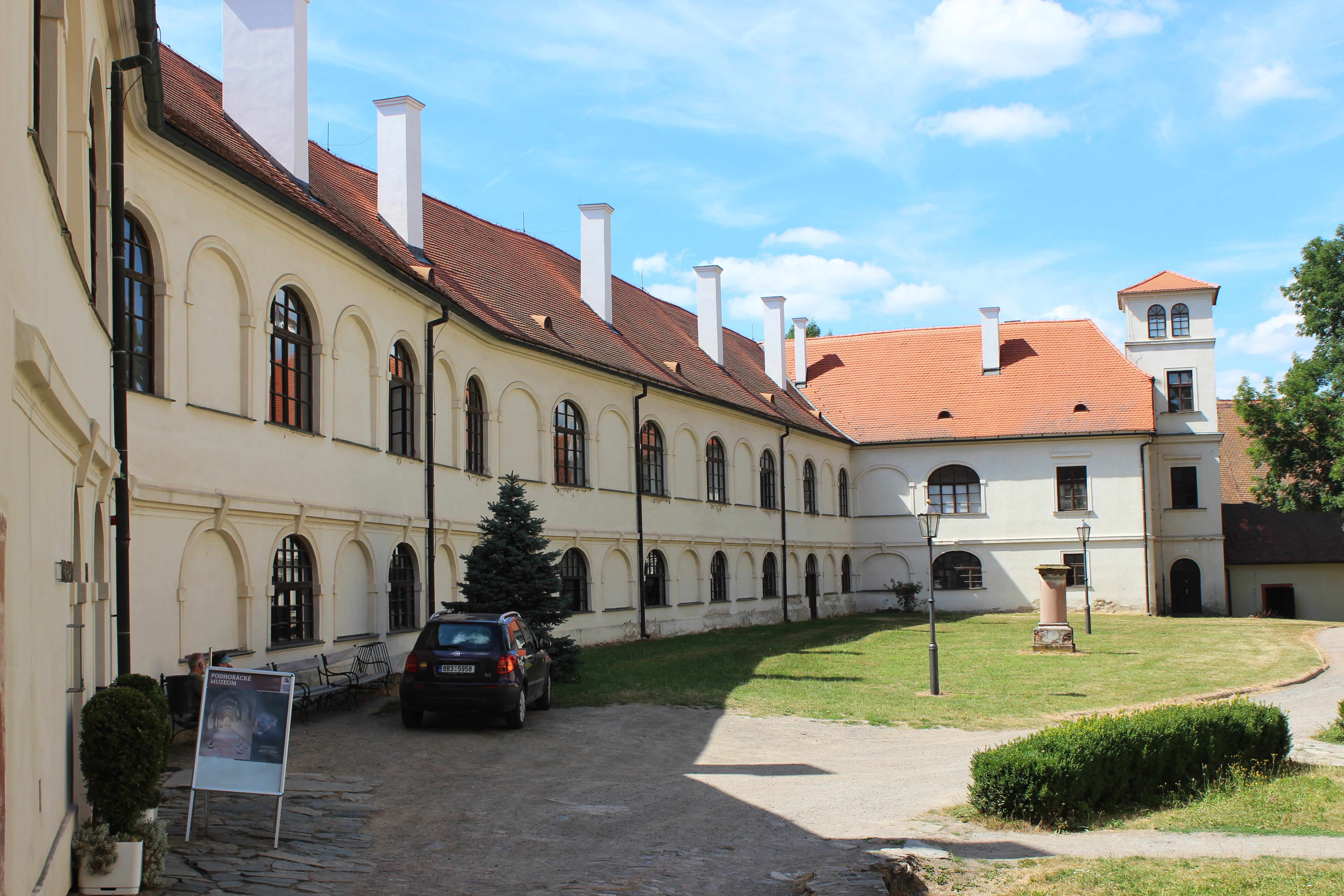 Porta coeli monastery, Předklášteří, Brno-Country District, Czech Republic This photograph was taken with a DSLR from WMCZ's Camera grant.